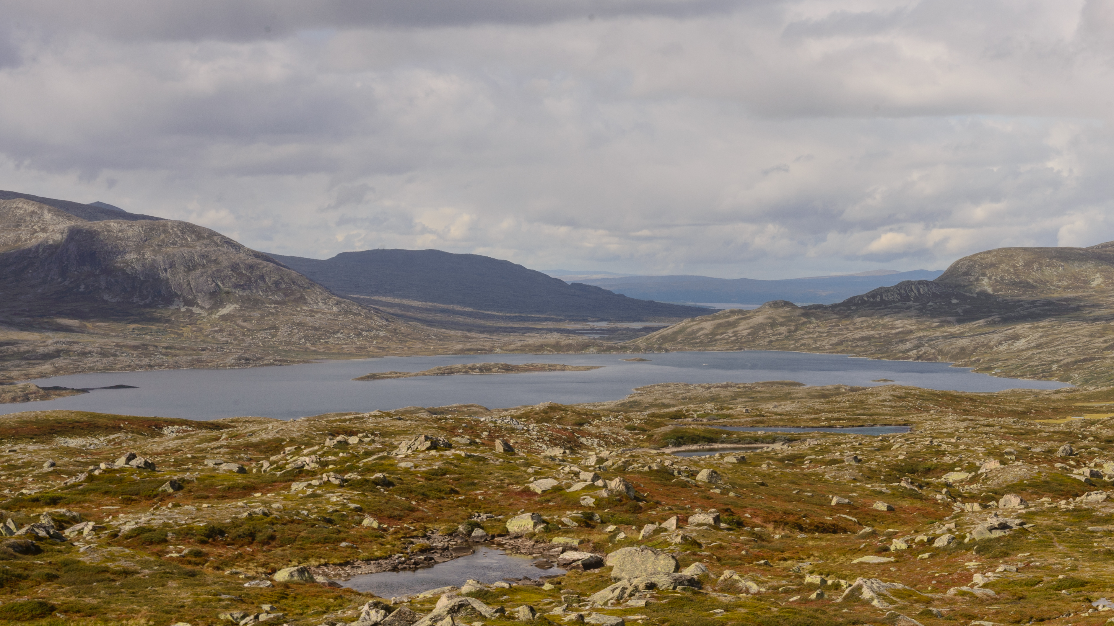 Lake Bolagen in Härjedalen Municipality, Härjedalen County, Sweden.